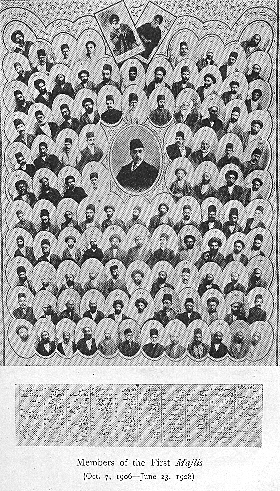 Members of the First Majlis of Iran (October 7, 1906 — June 23, 1908). The central photograph is that of Mortezā Qoli Khan Sani od-Dauleh, the first Chairman of the First Majlis. He had been for seven months the Finance Minister when he was assassinated on 6 February 1911 by two Georgian nationals in Tehran.[1] References ↑ W. Morgan Shuster, The Strangling of Persia, 3rd printing (T. Fisher Unwin, London, 1913), pp. 48, 119, 179. According to Shuster (p. 48), "Five days later [measured from February 1st] the Persian Minister of Finance, Saniu'd-Dawleh was shot and killed in the streets of Teheran by two Georgians, who also succeeded in wounding four of the Persian police before they were captured. The Russian consular authorities promptly refused to allow these men to be tried by the Persian Government, and took them out of the country under Russian protection, claiming that they would be suitably punished." See also: Mohammad-Reza Nazari, The retreat by the Parliament in overseeing the financial matters is a retreat of democracy, in Persian, Mardom-Salari, No. 1734, 20 Bahman 1386 AH (9 February 2008), [1].